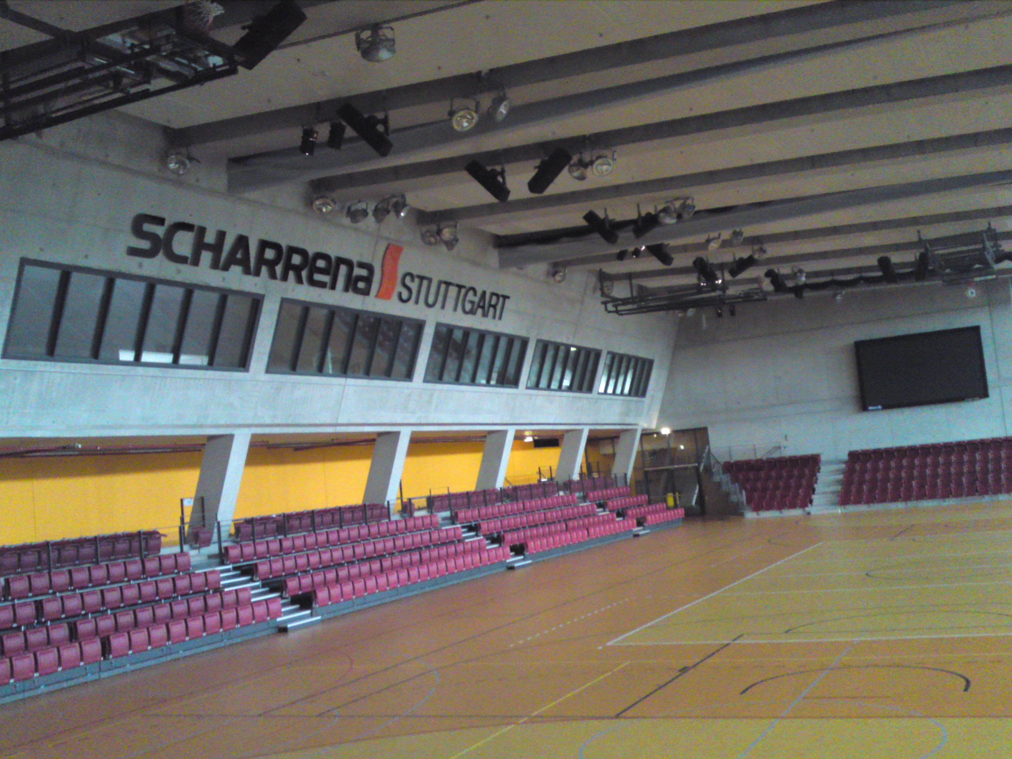 inner room of SCHARRena Stuttgart